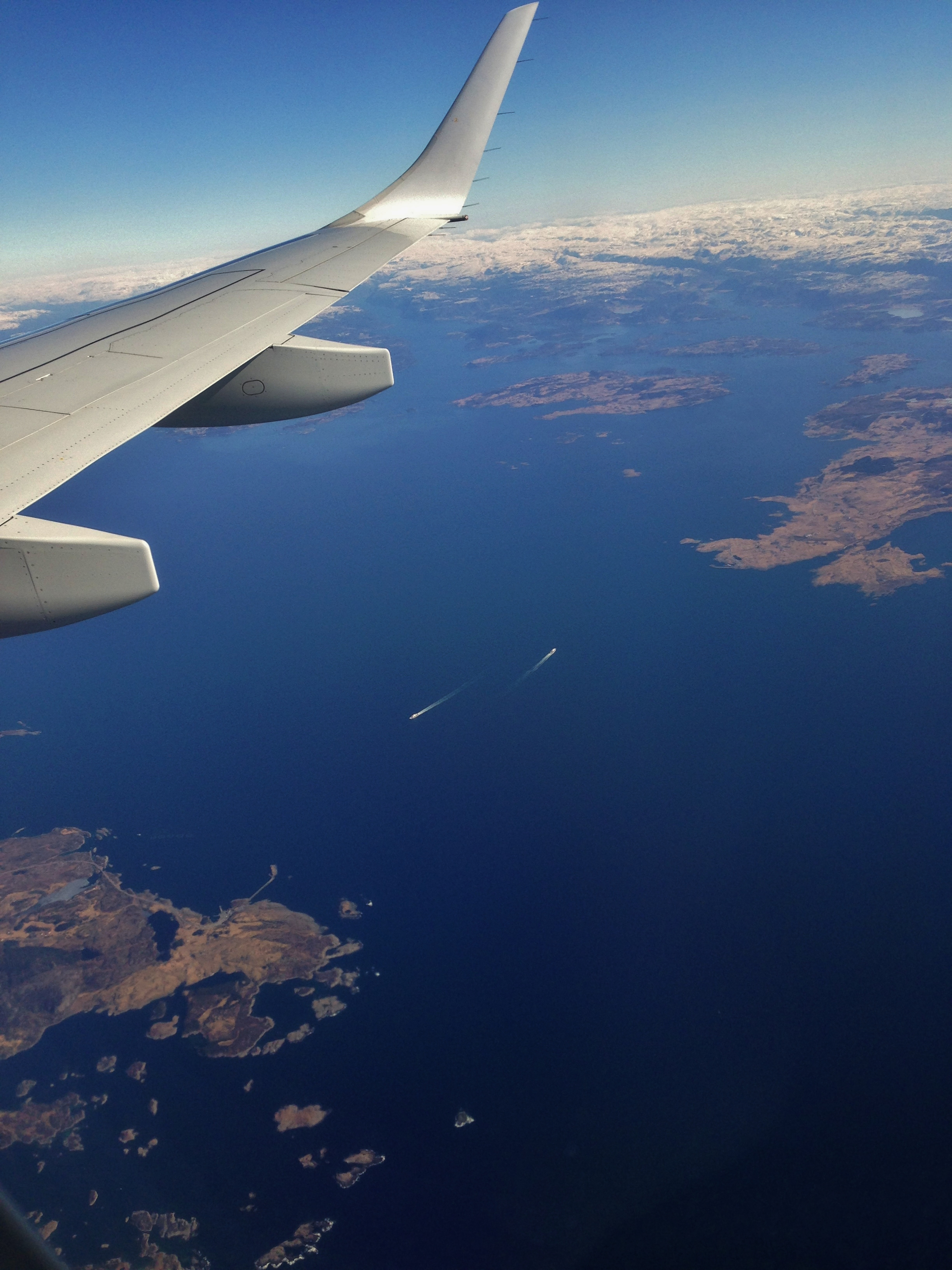 Boknafjord, Rogaland, Norway with the ferries from Arsvågen-Mortavika.